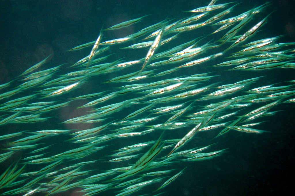 shrimpfish Aeoliscus strigatus; Mactan Cebu, Philippines